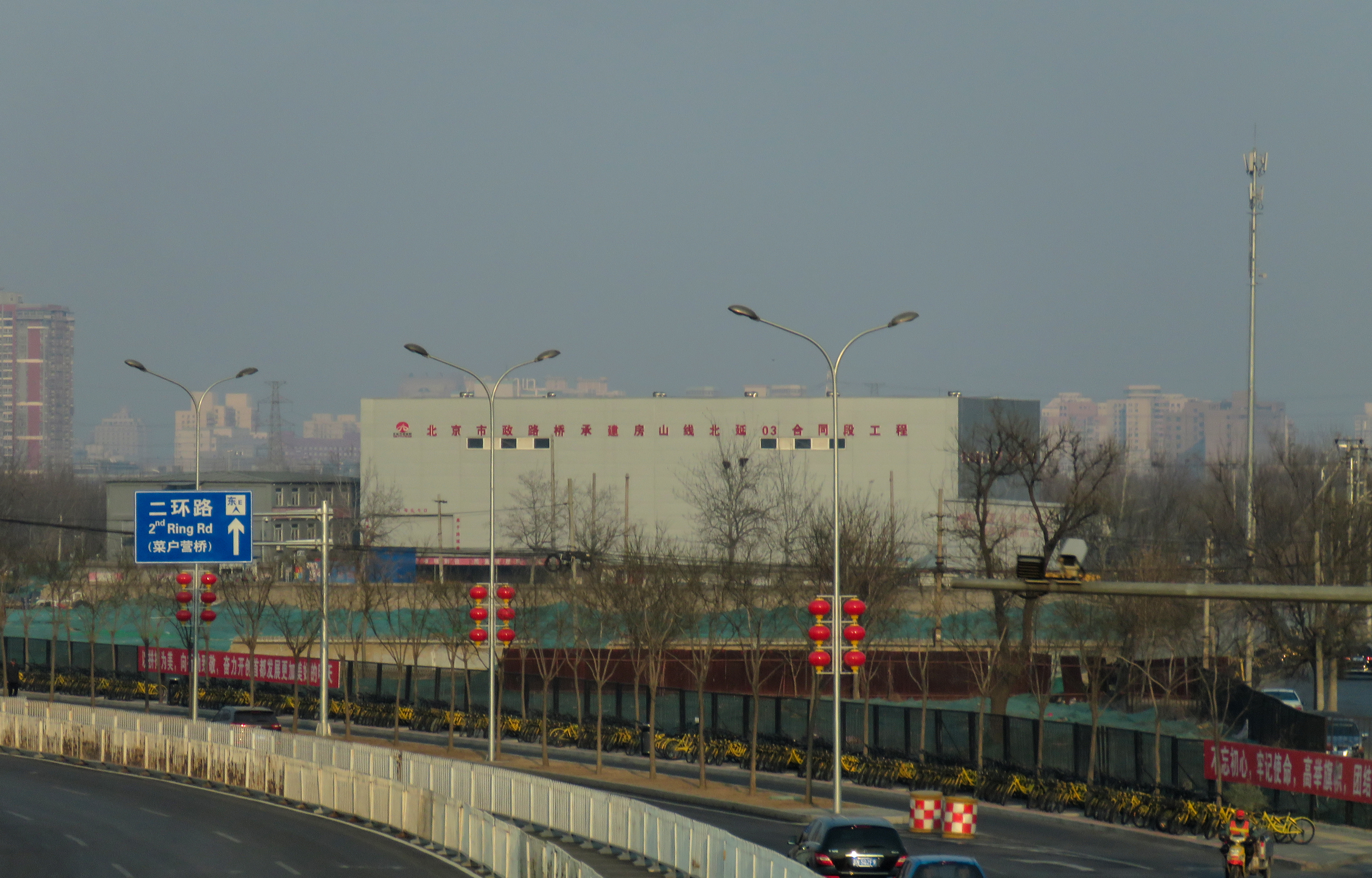 Taken from a clockwise 300 - but where is its Line 16 section?